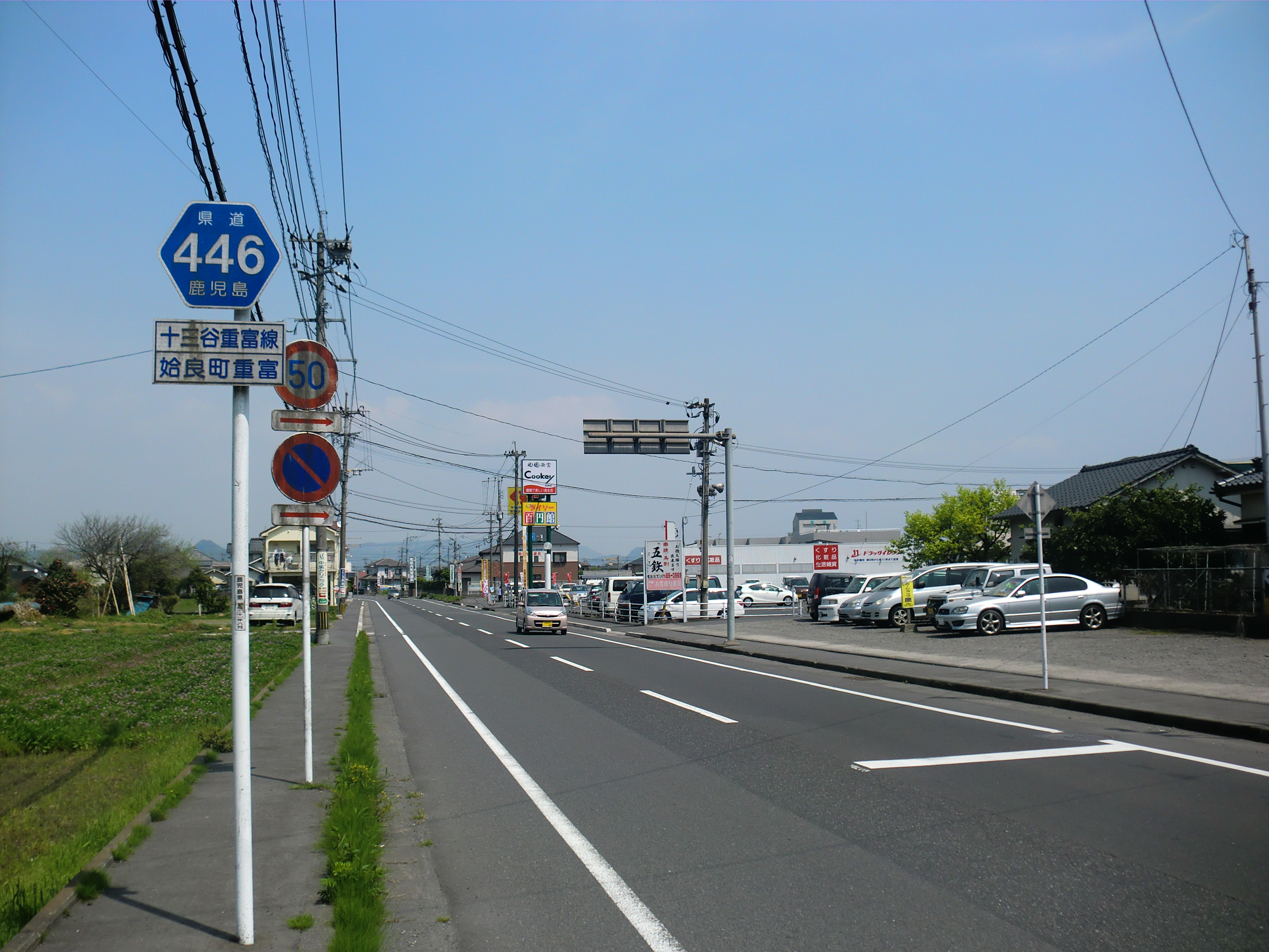 The Kagoshima Prefectural Road Route 446 in Aira City